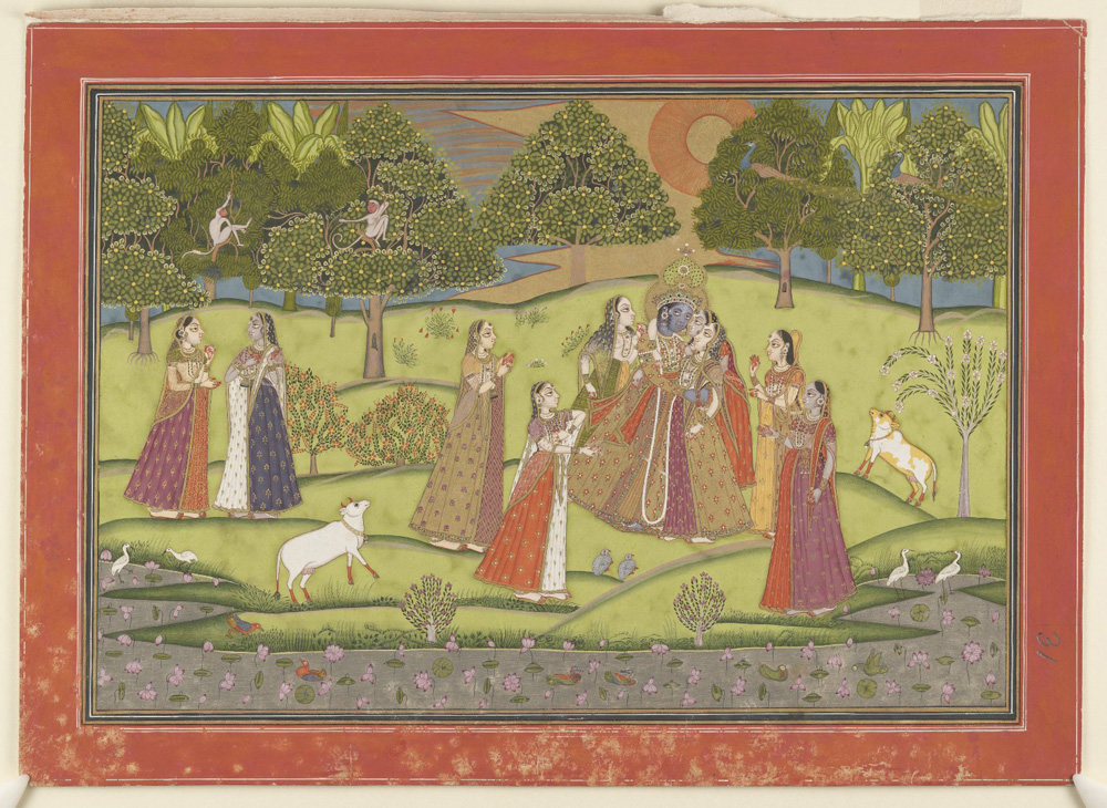 Krishna being adored by ladies, watched by monkeys in trees and by cattle. Hindu image. From an album of 18th century Indian watercolours.